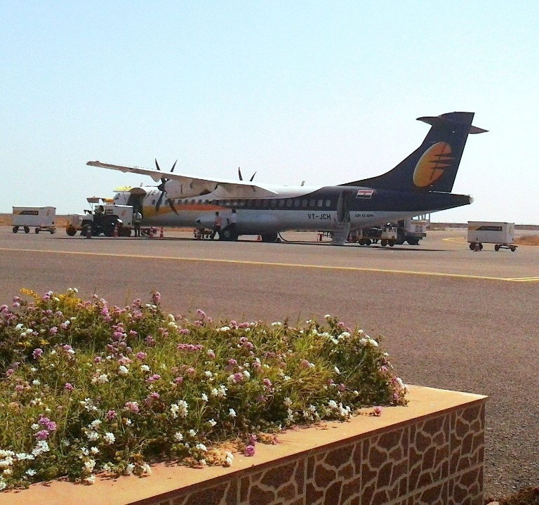 Jet Airways ATR- 72 aircraft at Bhavnagar Airport